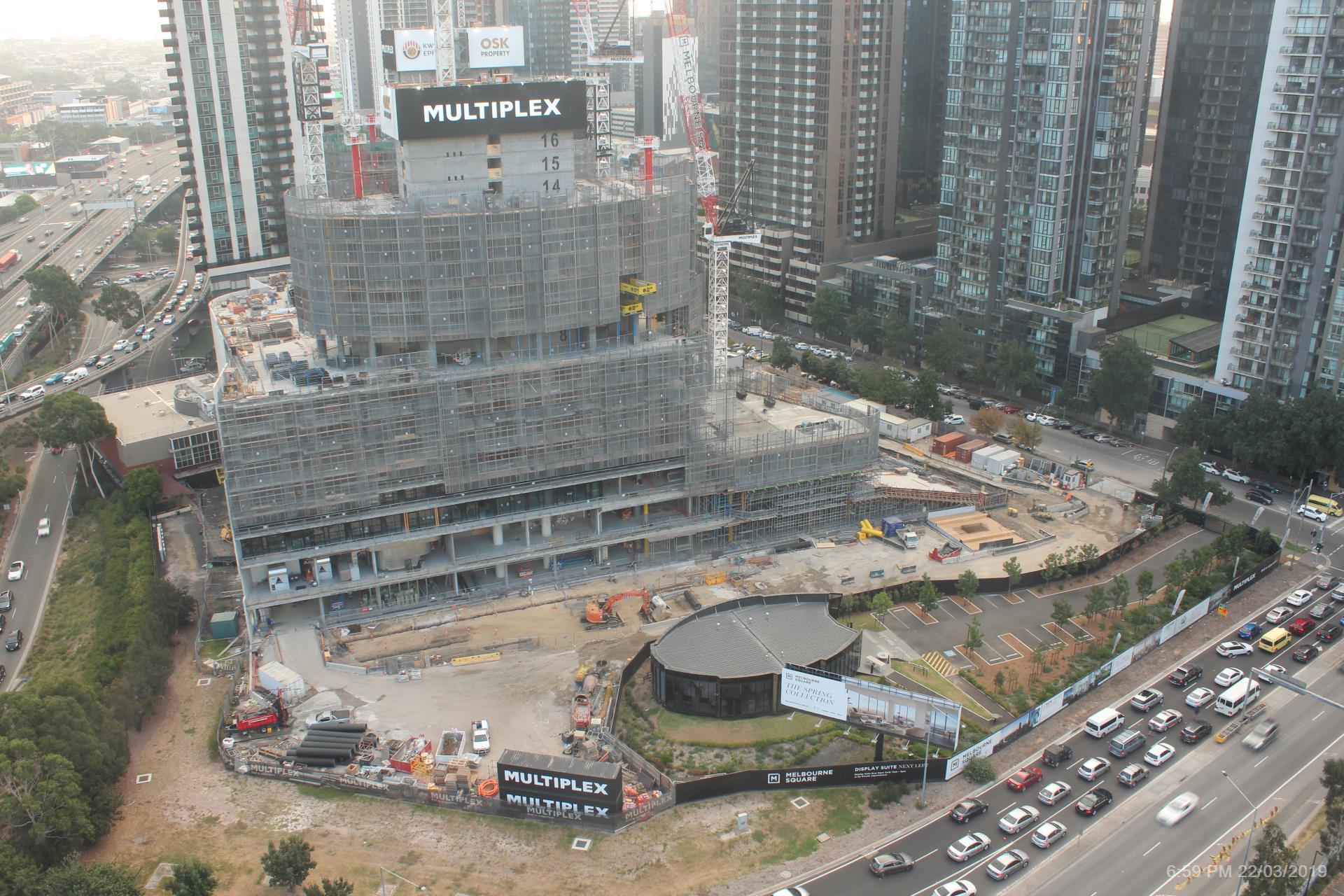 Latest construction snapshot for Melbourne Square.